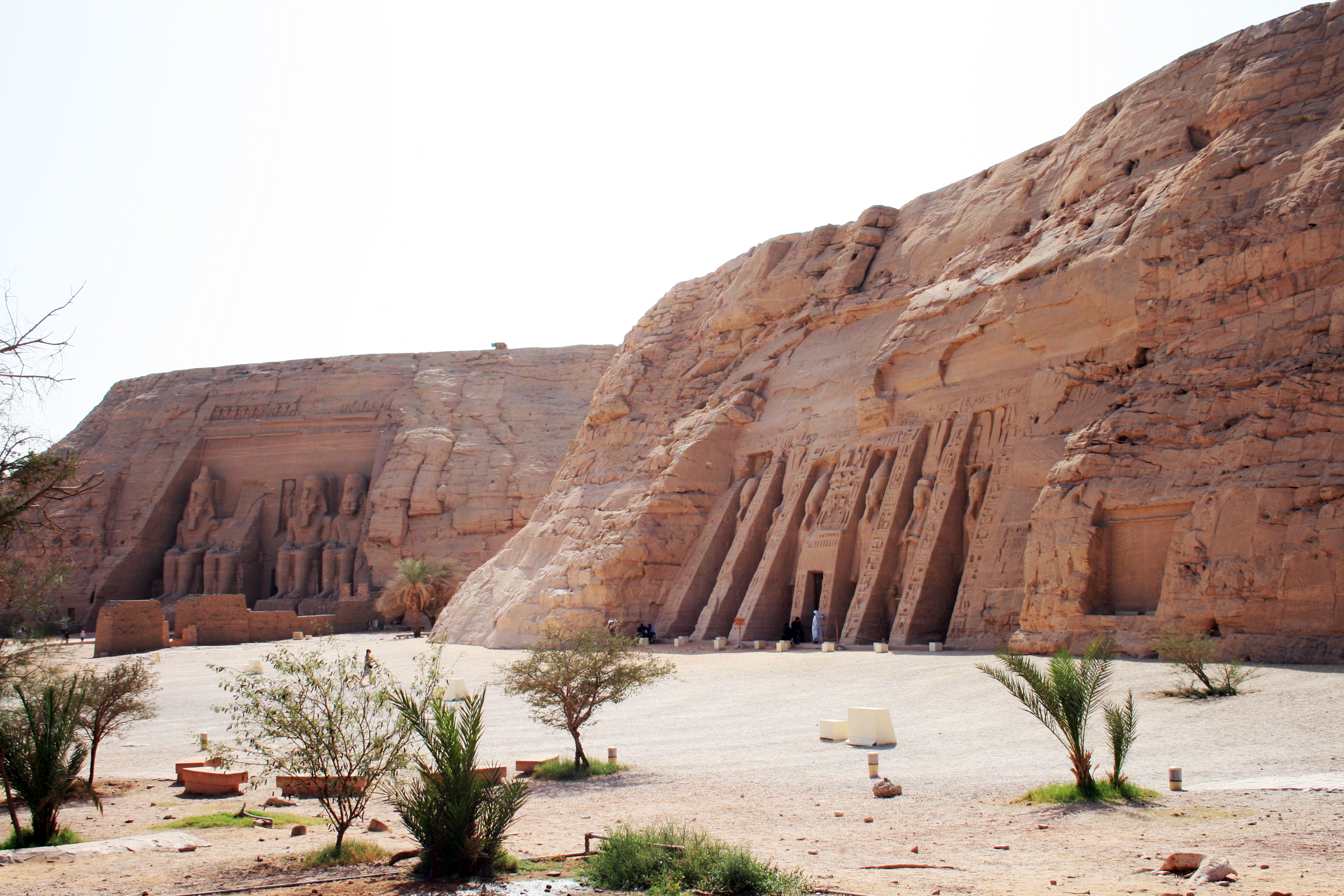 Abu Simbel temples near Aswan Dam on Nile river Egypt